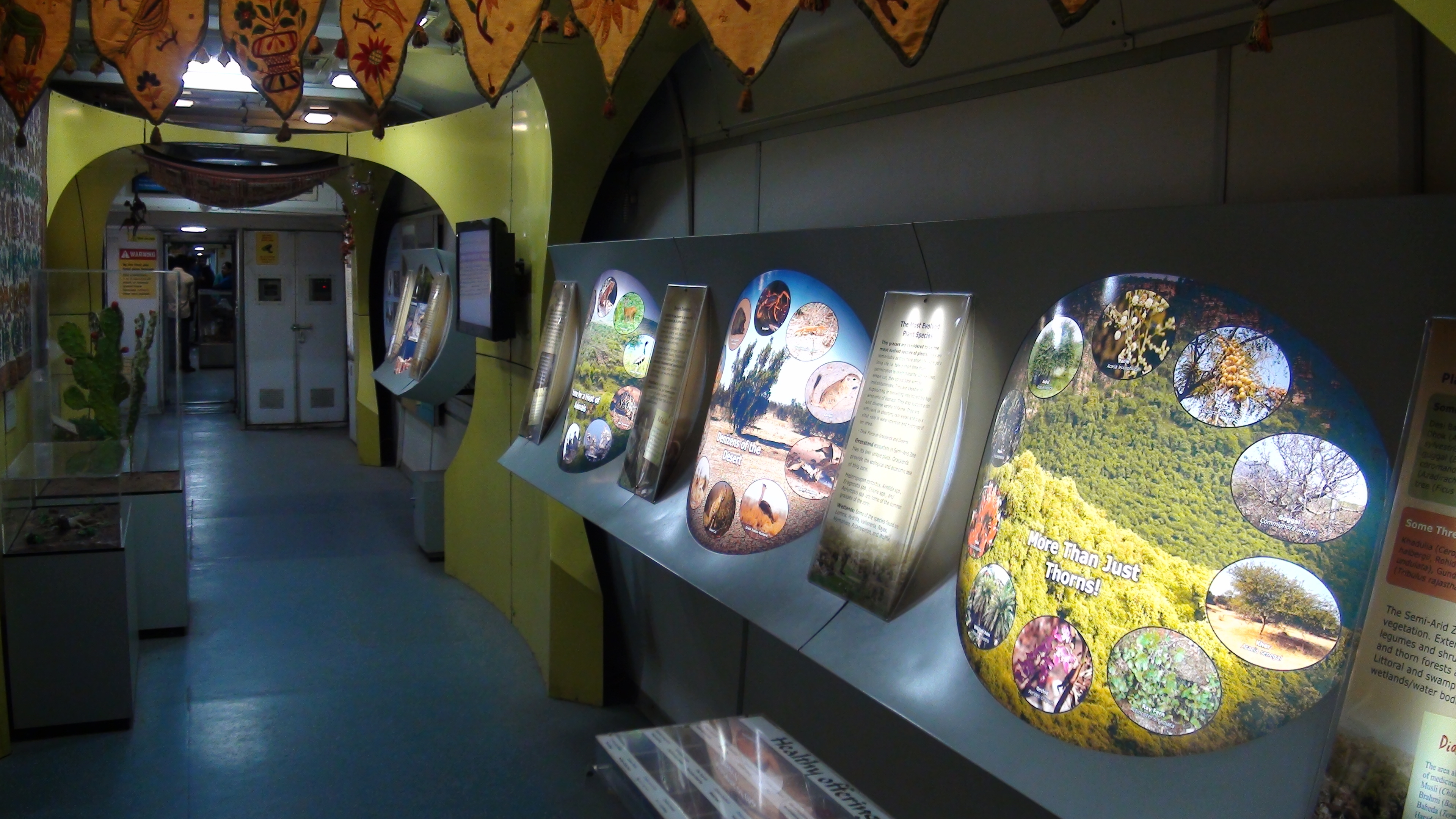 science express bio diversity special